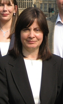 Angela Cannings - image cropped to remove other people in photograph